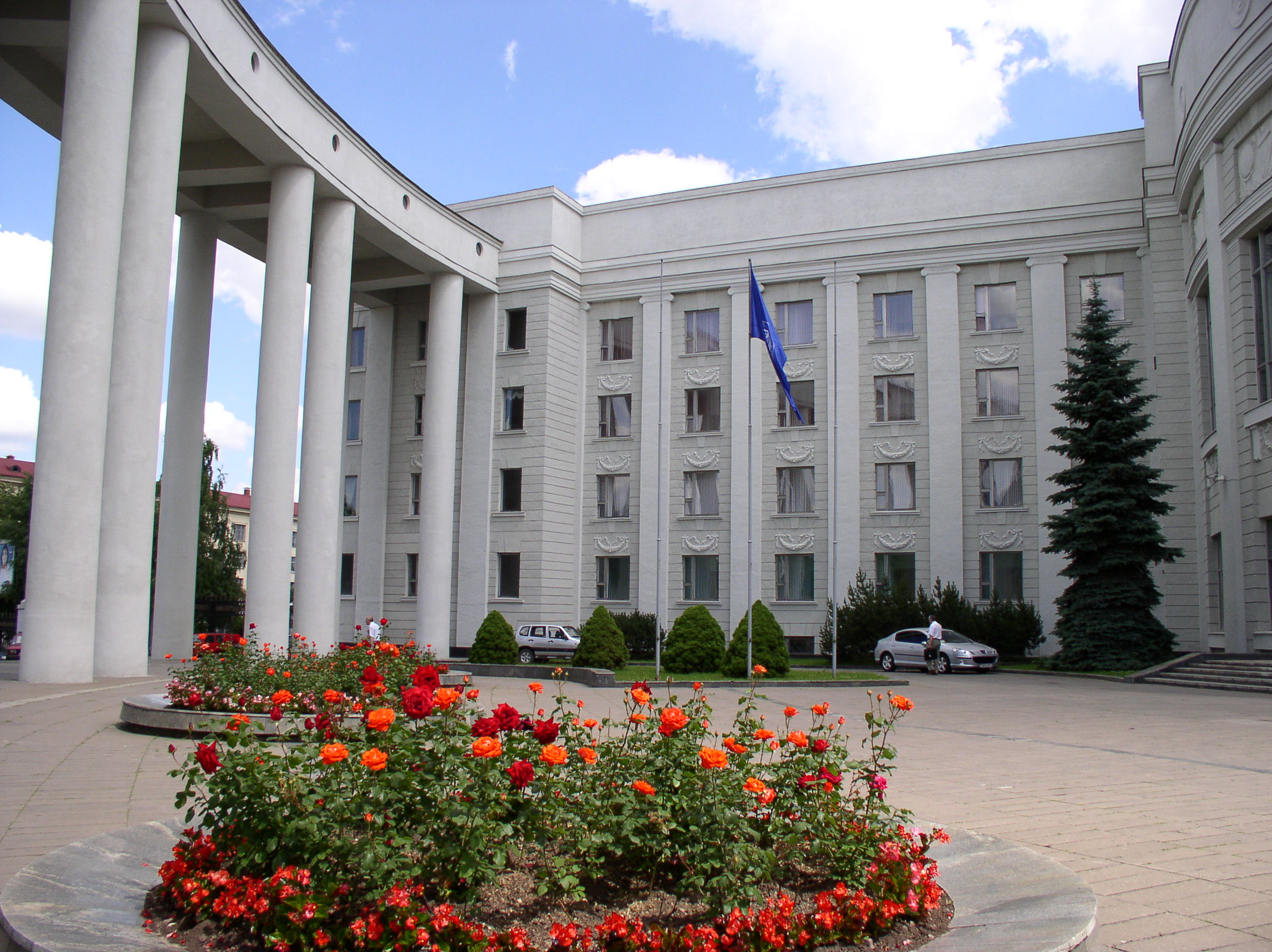 Academy of Sciences of Belarus, Minsk, Belarus.